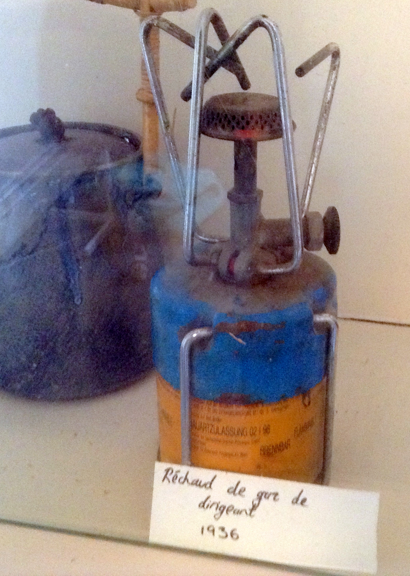 Lafares portable gas stove 1932